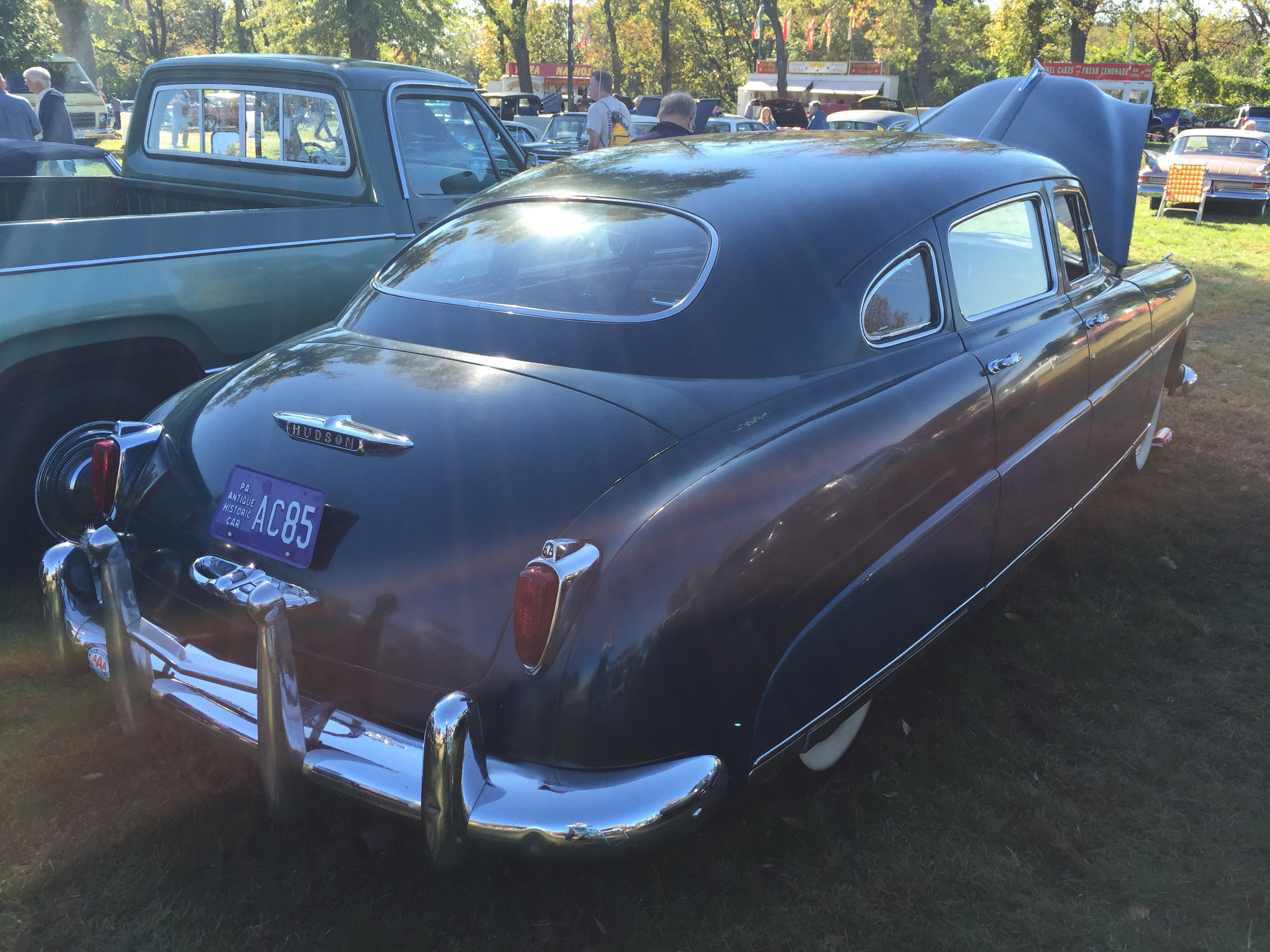 1949 Hudson Commodore, a full-sized four-door sedan featuring Hudson's step-down design that allowed the car to be lower than contemporary models, as well as better handling because of a lower center of gravity. This car has the 202 cu in (3.3 L) straight 6 engine. Picture taken at the 2015 AACA Eastern Regional Fall Show held in Hershey, Pennsylvania. This car is in the HPOF (Historical Preservation Original Features) class.